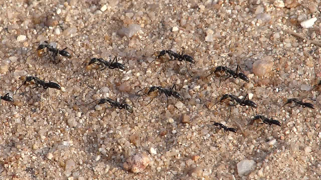 S131 Road West of Letaba, Kruger NP, SOUTH AFRICA